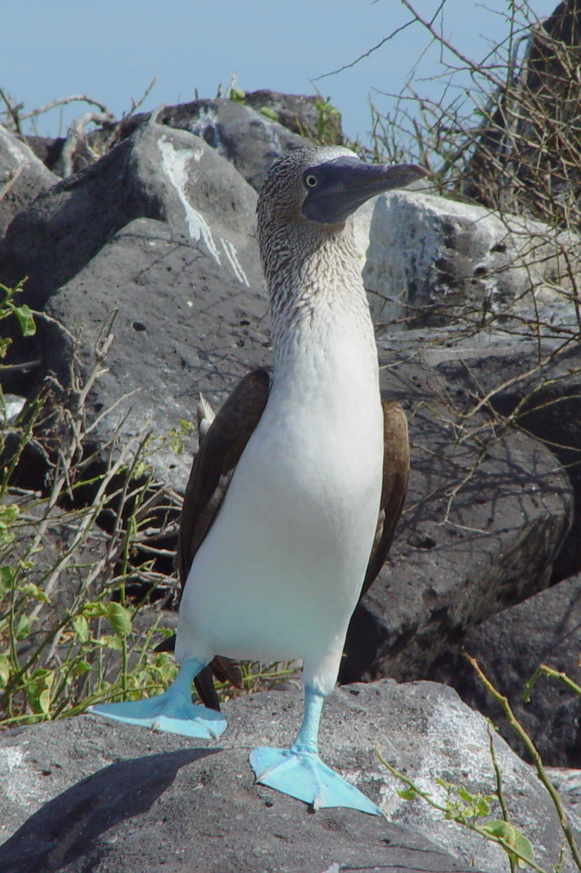 Blue-footed Booby (Sula nebouxii) with one leg raised.